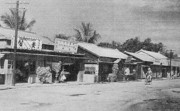 Rota Island in the Japanese Period